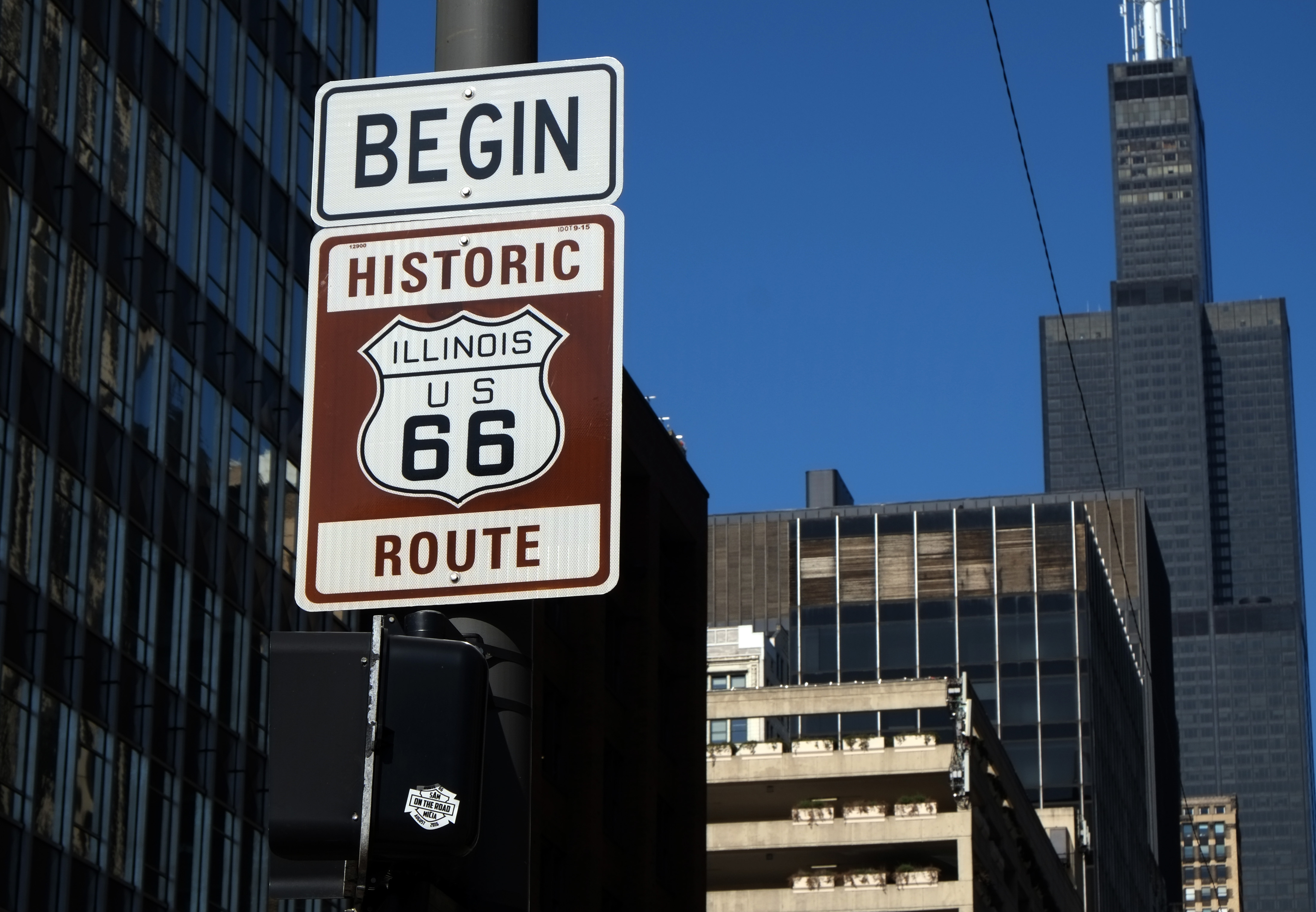 Route 66 begins in Chicago